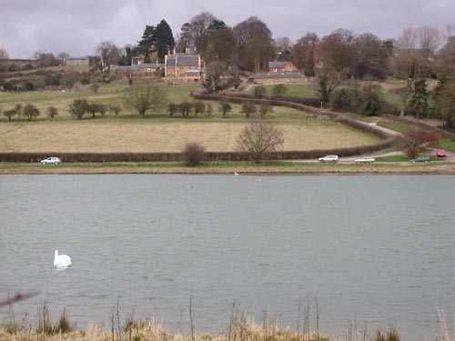 Eyebrook Reservoir. Looking north-east across the reservoir towards Stoke Dry village. Read more about the reservoir here